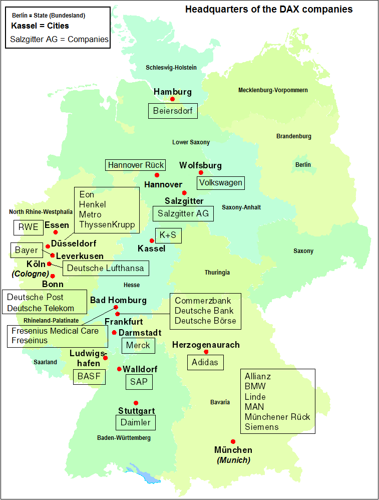 Map showing the headquarters of the 30 companies that make up the Deutscher Aktienindex (Dax).